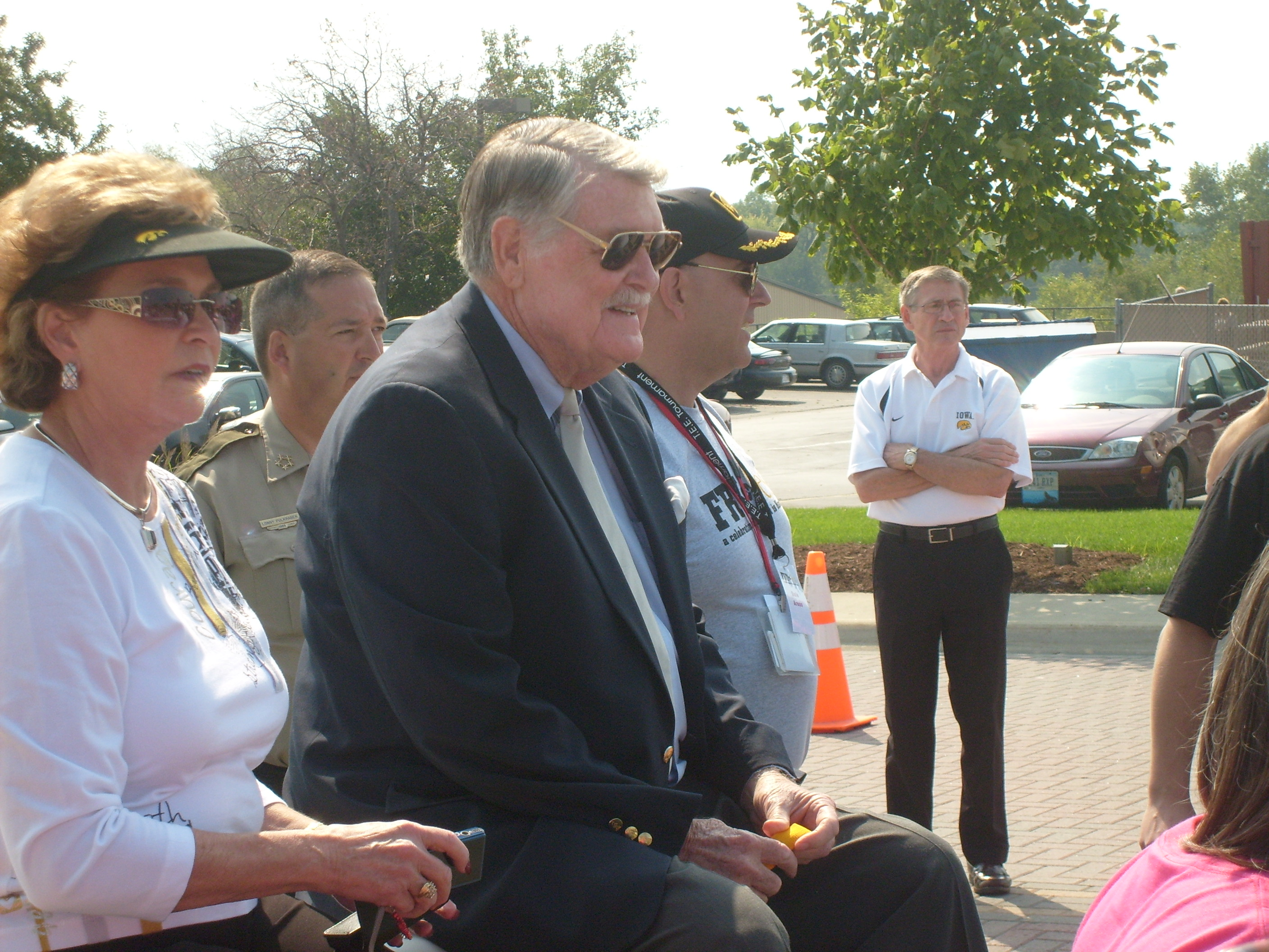 Hayden Fry riding during a parade in his honor during the 2009 "Fry Fest."